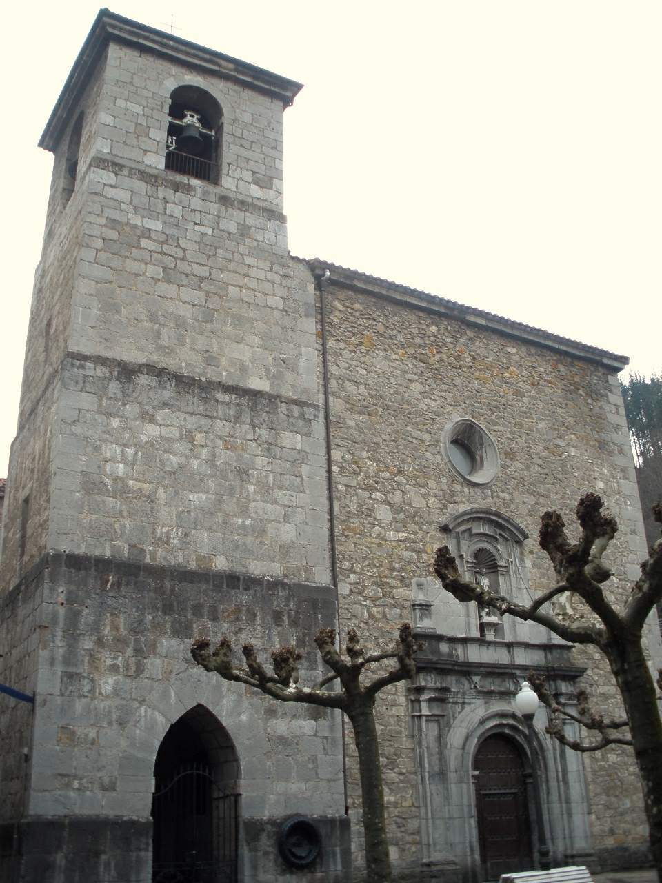 Iglesia de San Juan Bautista, Alegia (Guipúzcoa)